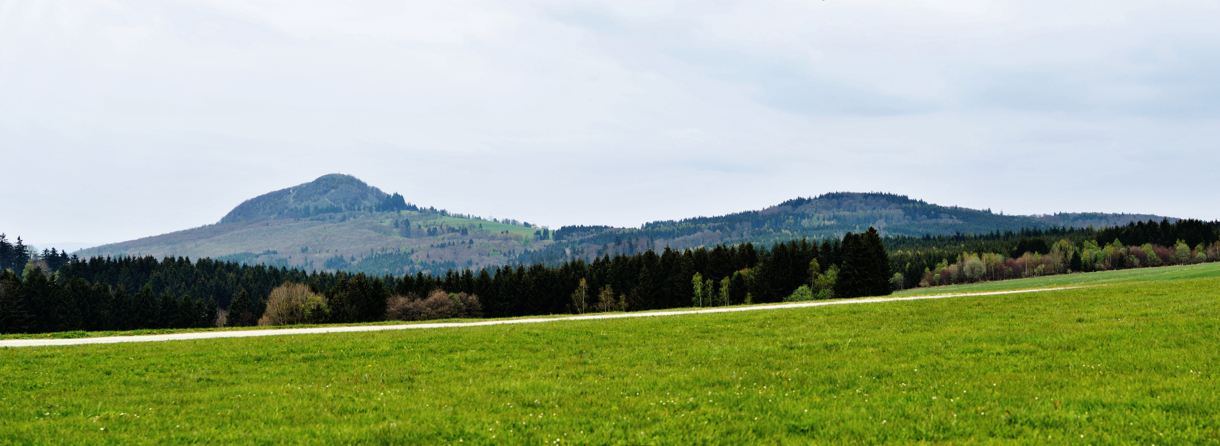 "Milseburg" and "Bubenbader Stein" mountains, Rhön, Germany